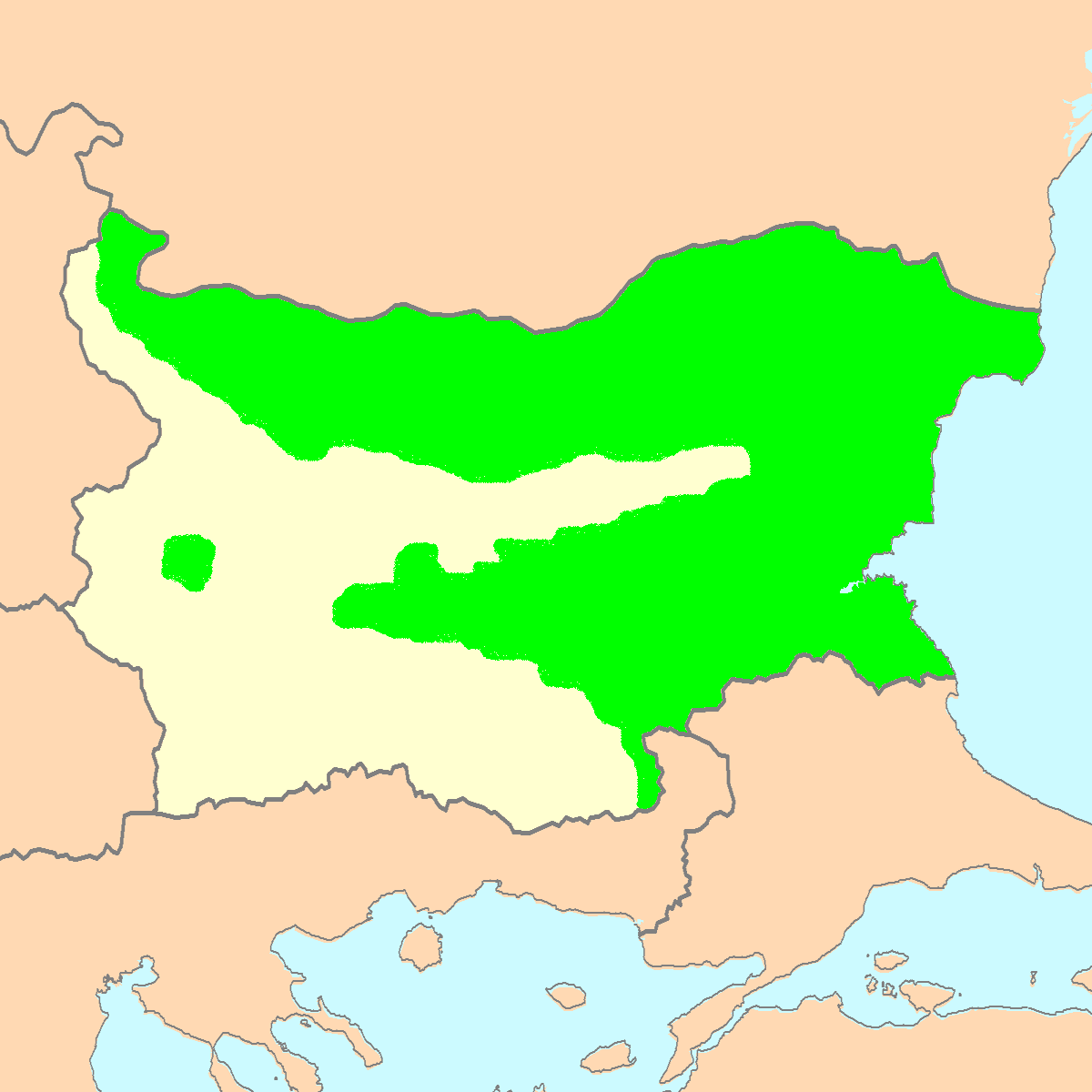 Blackhead Pleven Sheep area of distribution